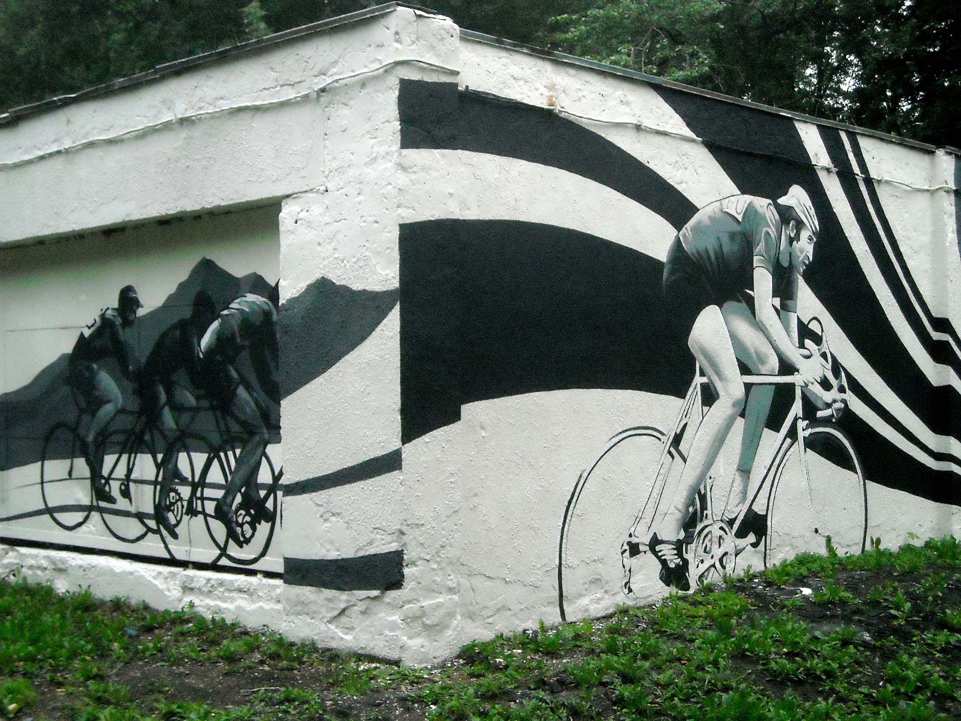 Graffiti of Valery Chaplygin in the Boyevka park, Kursk, Russia. (Valery Chaplygin on right side)